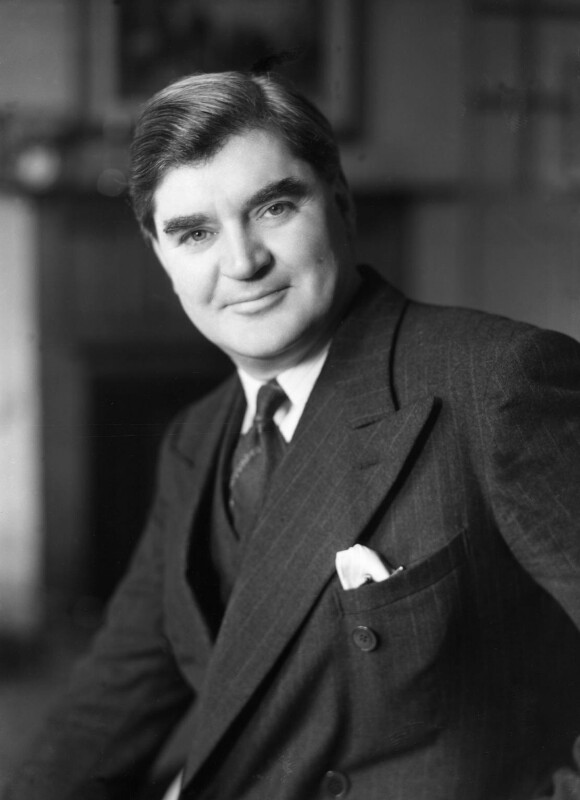 Portrait of Aneurin Bevan